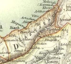 Turkey in Asia (Asia Minor) and Transcaucasia. Keith Johnston's General Atlas. Oct. 1911. Engraved, Printed, and Published by W. & A.K. Johnston, Limited, Edinburgh & London